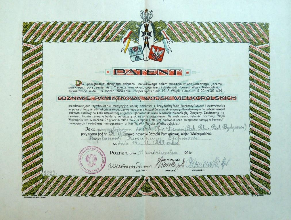 Patent for the Wielkopolska Army commemorative badge given to Capt Stefan Kossecki on October 11, 1921